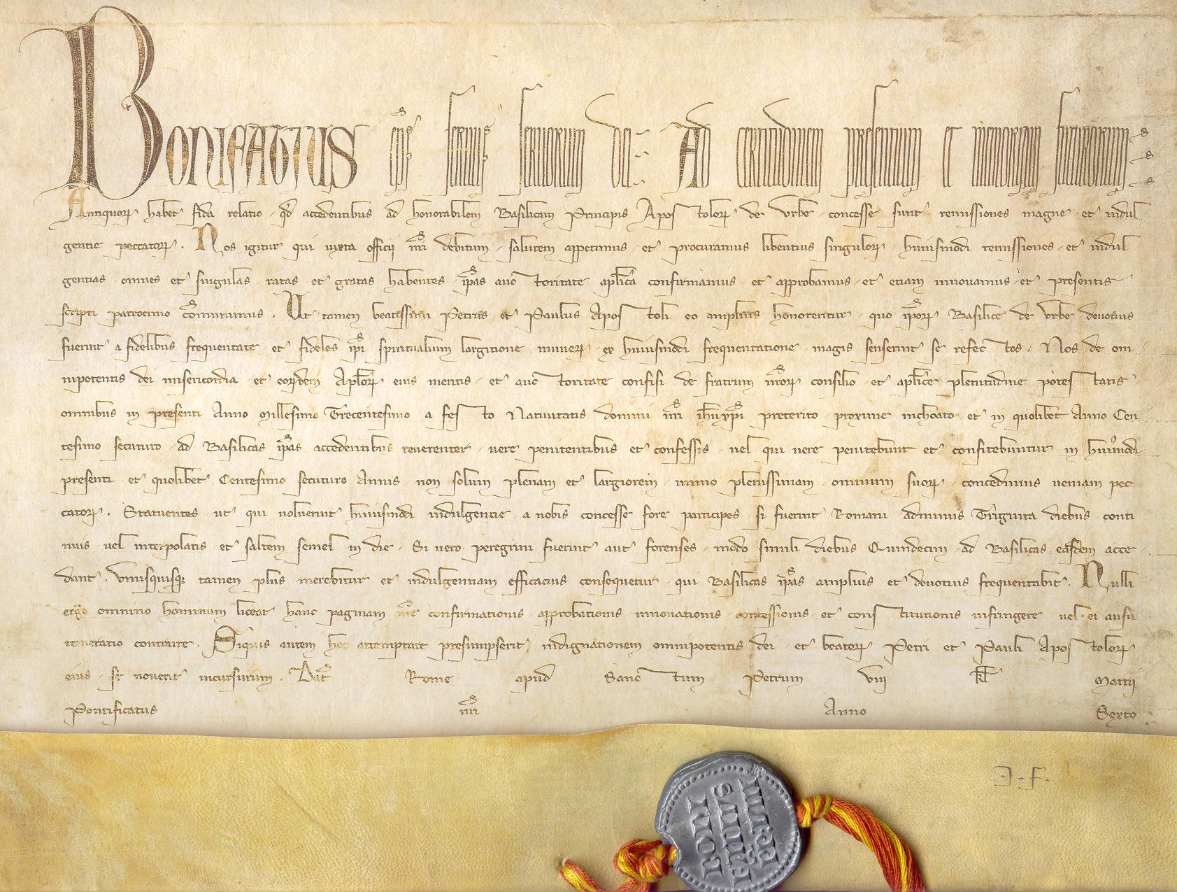 Bull of Pope Boniface VIII about Jubilee in 1300